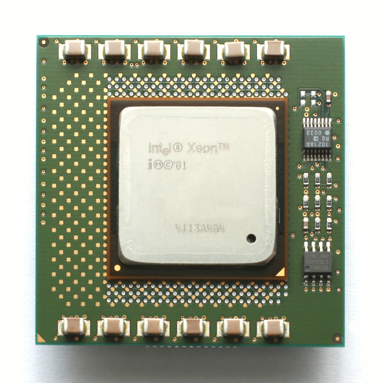 CPU Intel Xeon DP Foster-256, sSpec: SL4WX